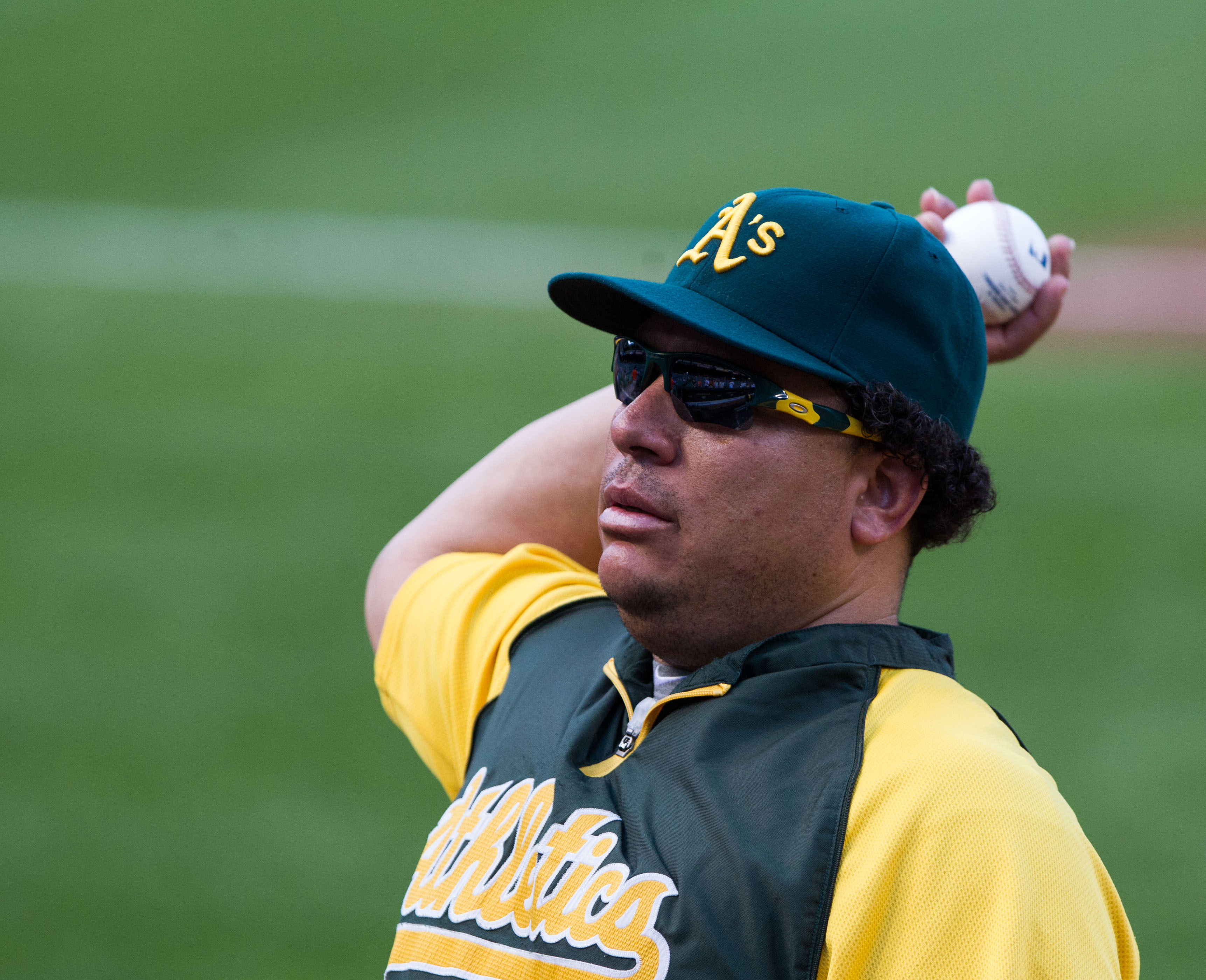 Athletics at Orioles July 27, 2012